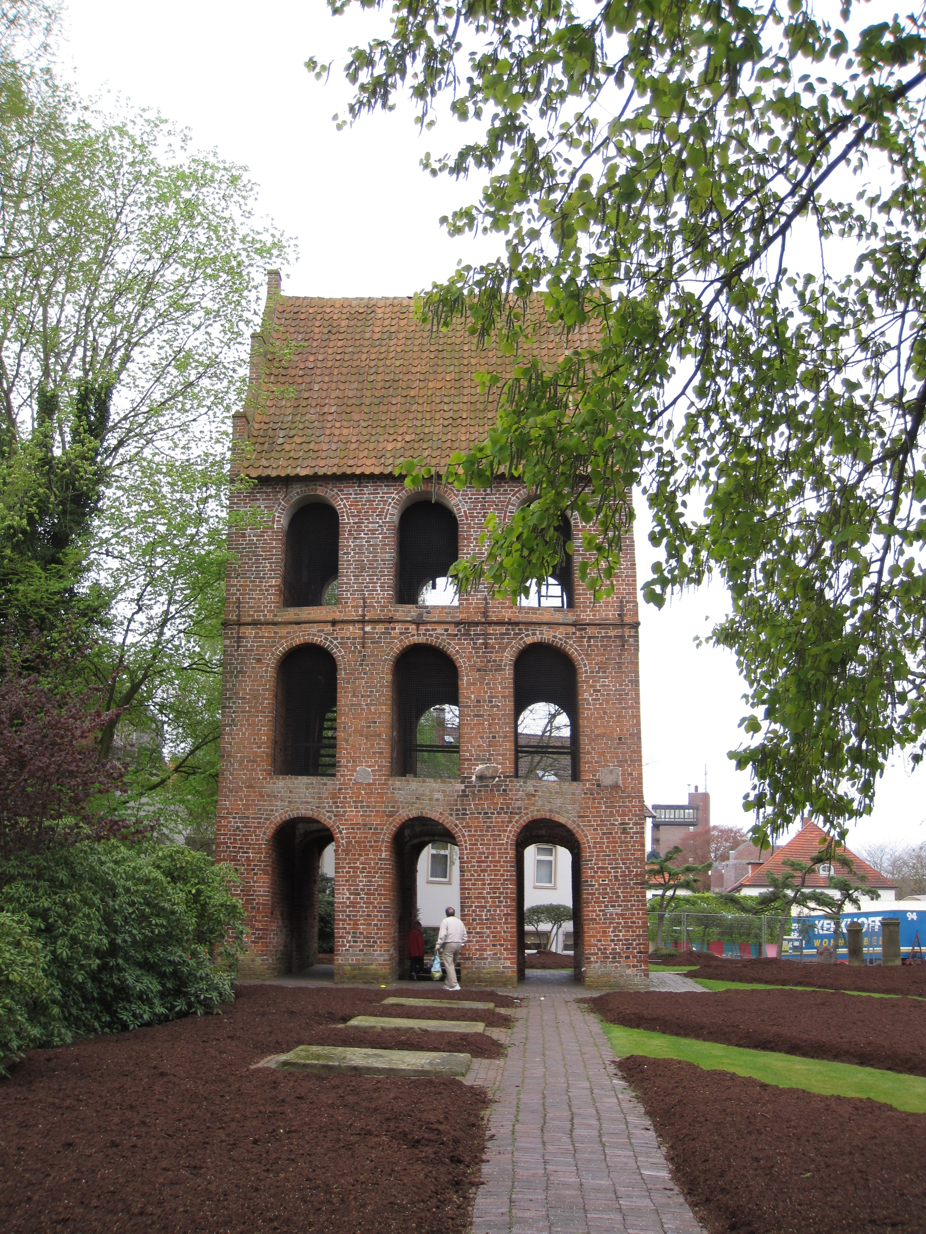 Westerstede's St. Petri Church Bell tower